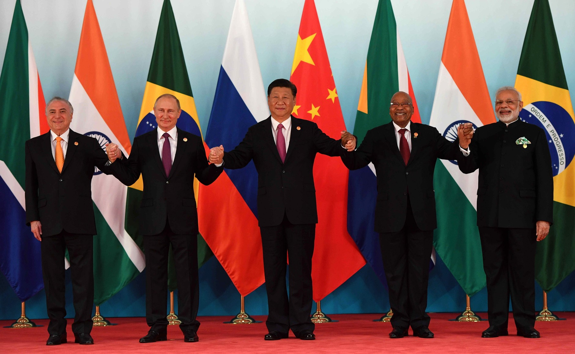 Participants in the BRICS summit.